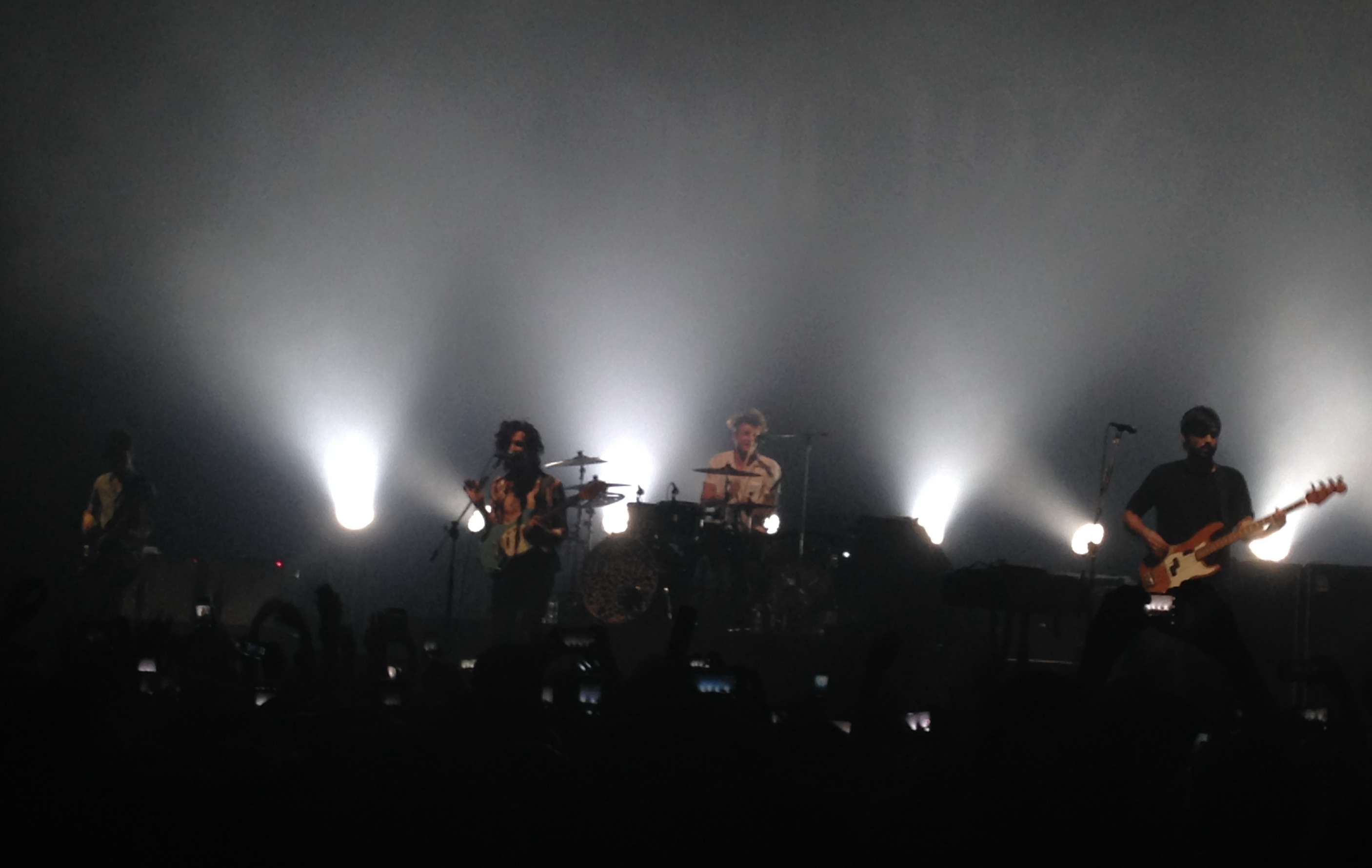 The 1975 Live in Bangkok.